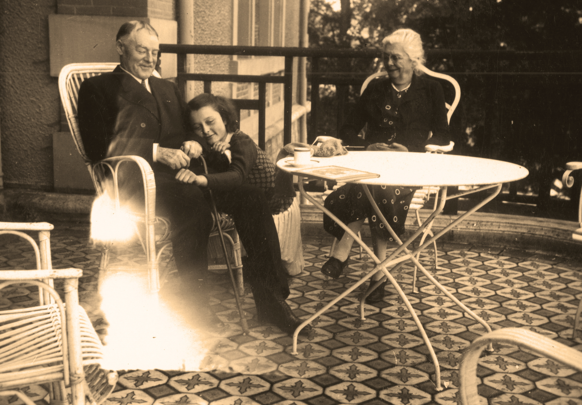 Christiane Peugeot avec ses grands-parents paternels Robert et Jeanne Peugeot